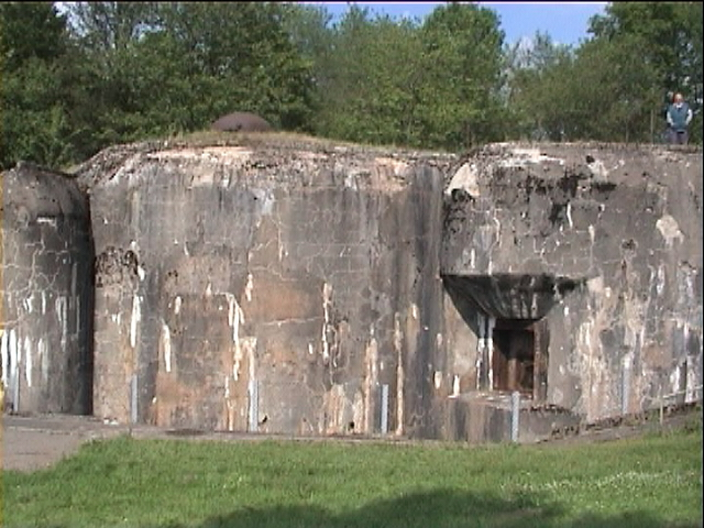 Block of Artillery of the Western work (Block 9). This block is armed with a bomb thrower of 135mm under casemate (visible shielding on the frontage of the block), an eclipsable turret for 2 bomb throwers of 135mm and 2 GFM bells for brought closer defense (one of them is visible at the top of the block) This pict has been taken by Utilisateur:Fistos Photo prise par Utilisateur:Fistos This work belongs to the public domain, either because its author gave up his rights (copyright), or because its rights expired. It is thus freely diffusable and/or modifiable